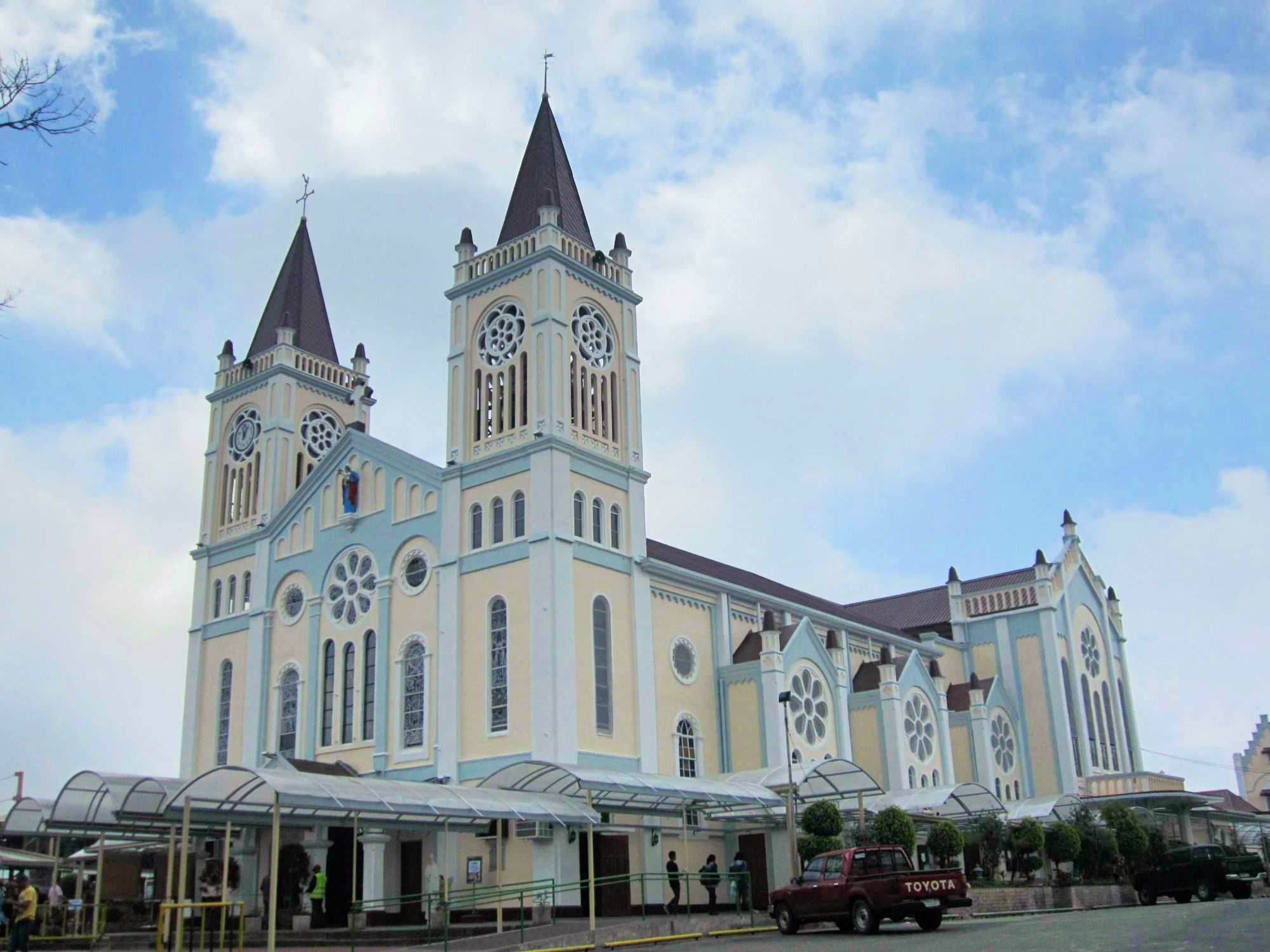 The Our Lady of the Atonement Cathedral or Baguio Cathedral is one of the most visited heritage sites in Baguio City.